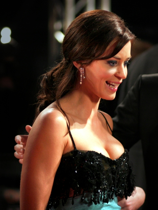 Emily Blunt at the Orange British Academy Film Awards in London's Royal Opera House